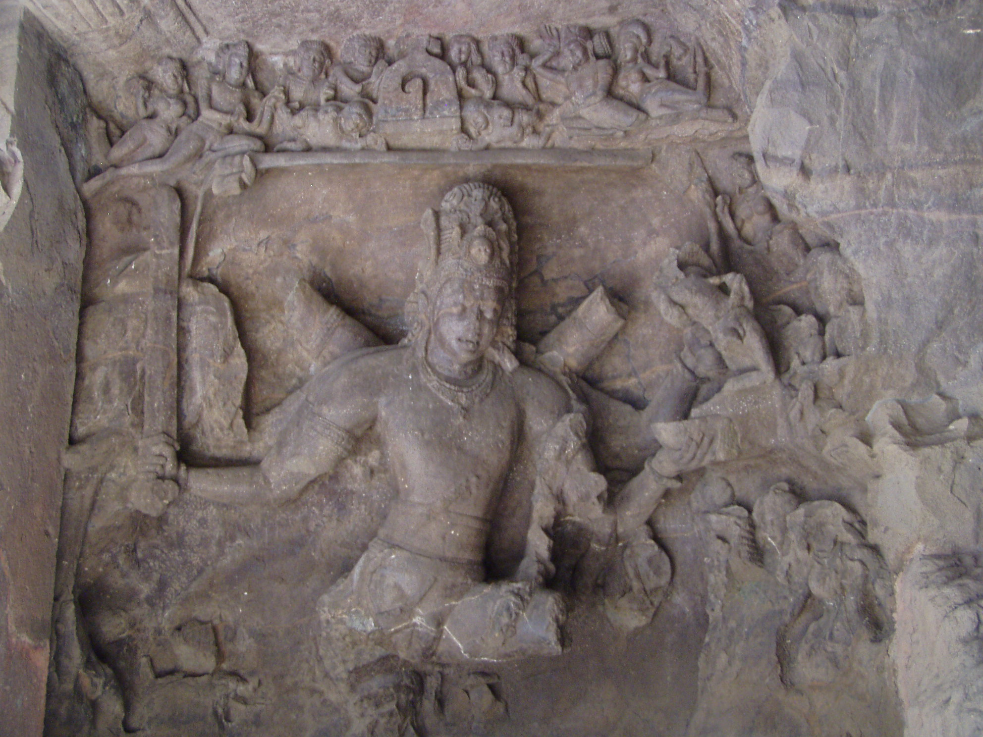 Panel containing Bhairava (Siva the Destroyer) slaying the demon Andhaka in Elephanta caves. The panel is found on the western porch of the main cave.